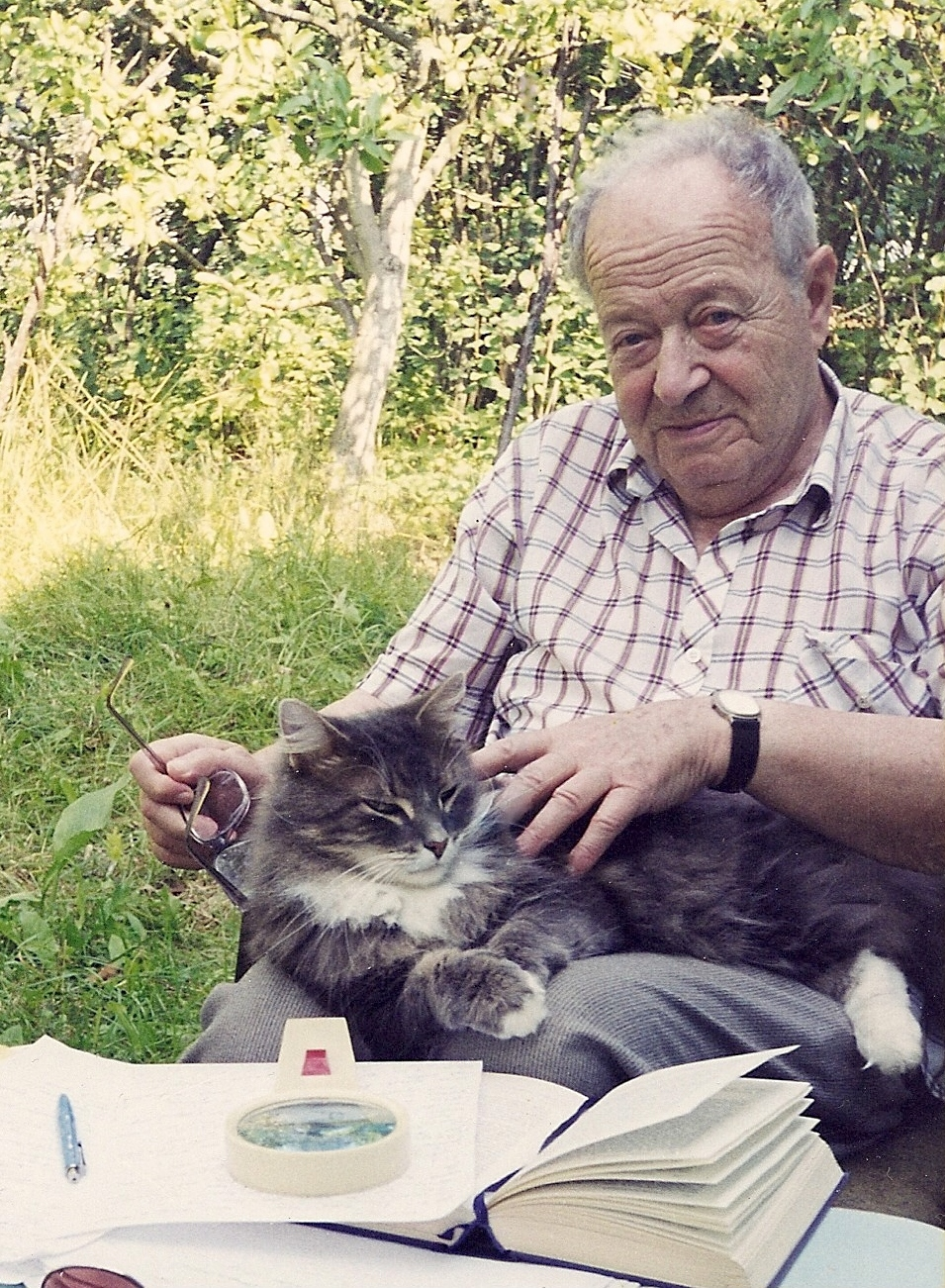 Jacob Lubarsky at his dacha (country house) near St.Petersburg.